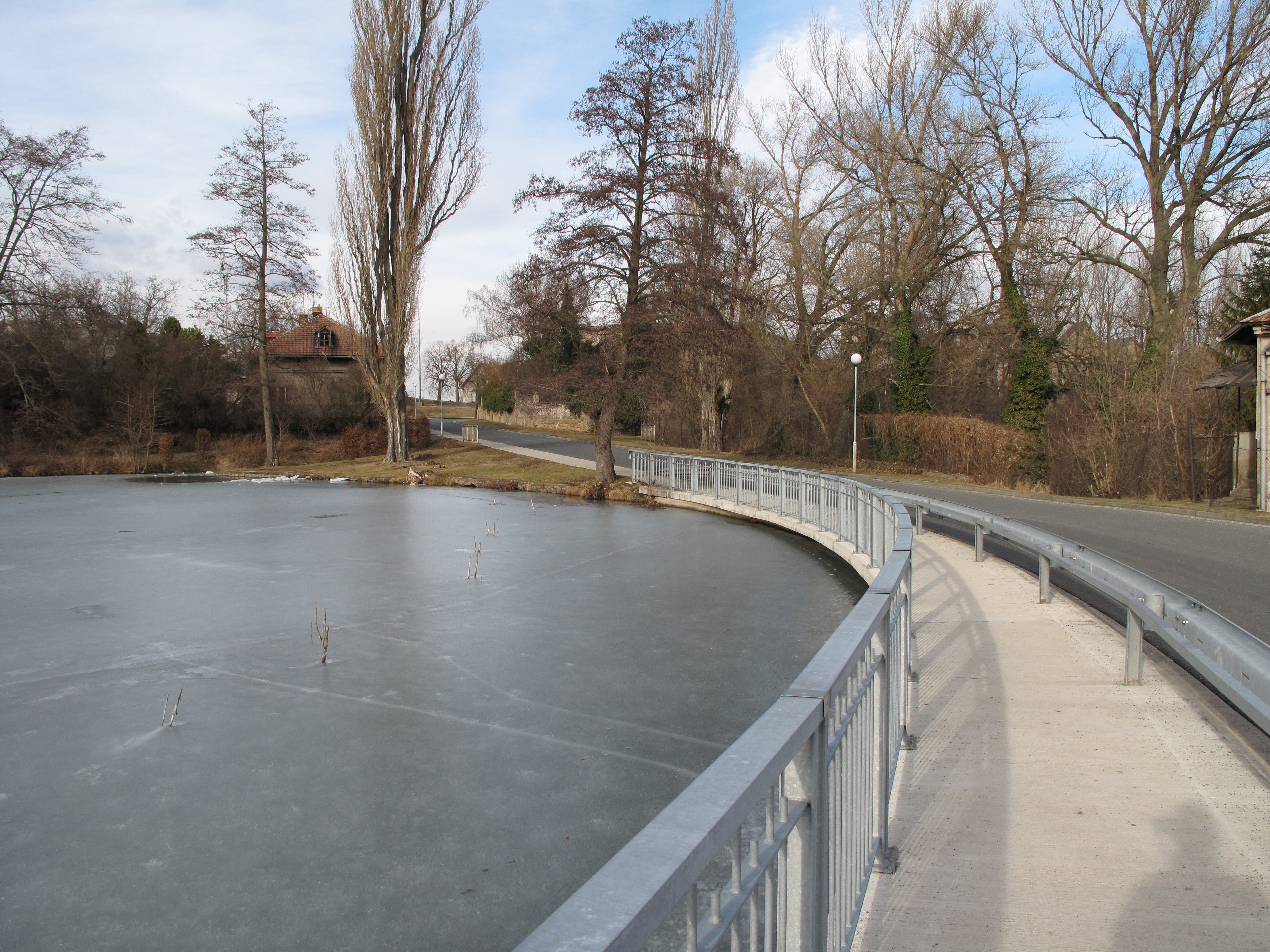 Damn of Teplý rybník (pond) in Ratboř village, Kolín District, Czech Republic. Project: Vodstvo